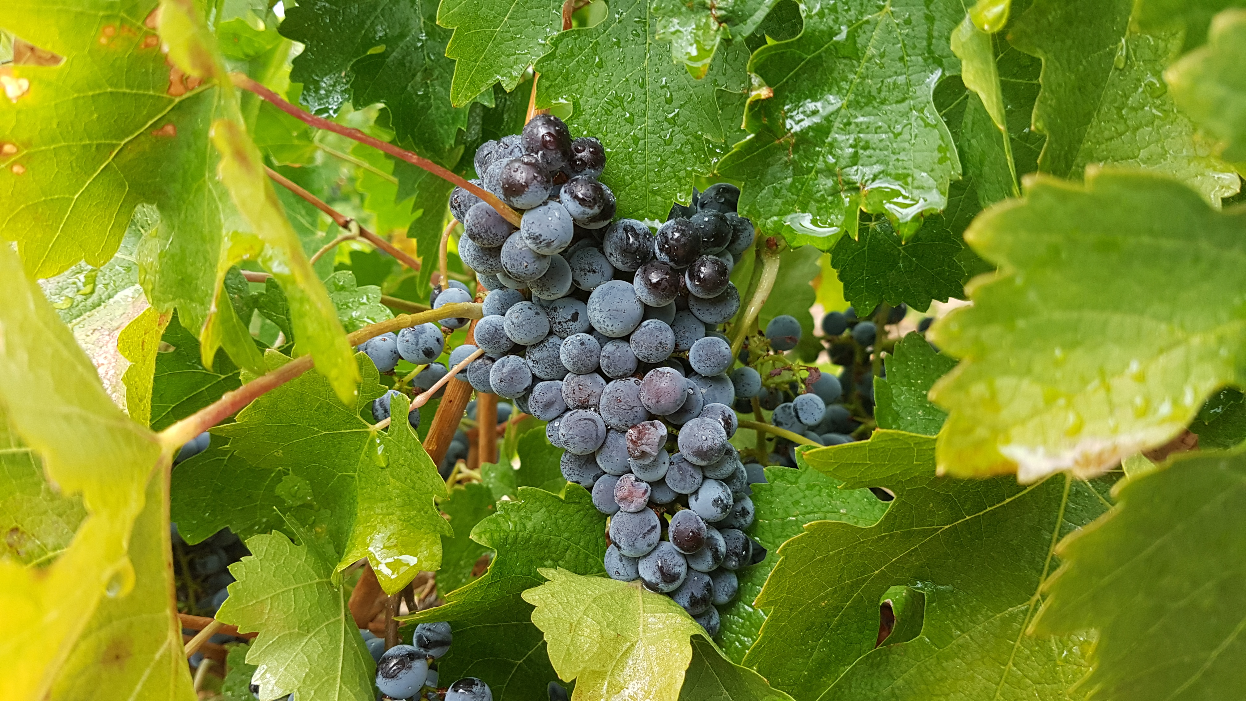 Crops in Tikveš region Macedonia